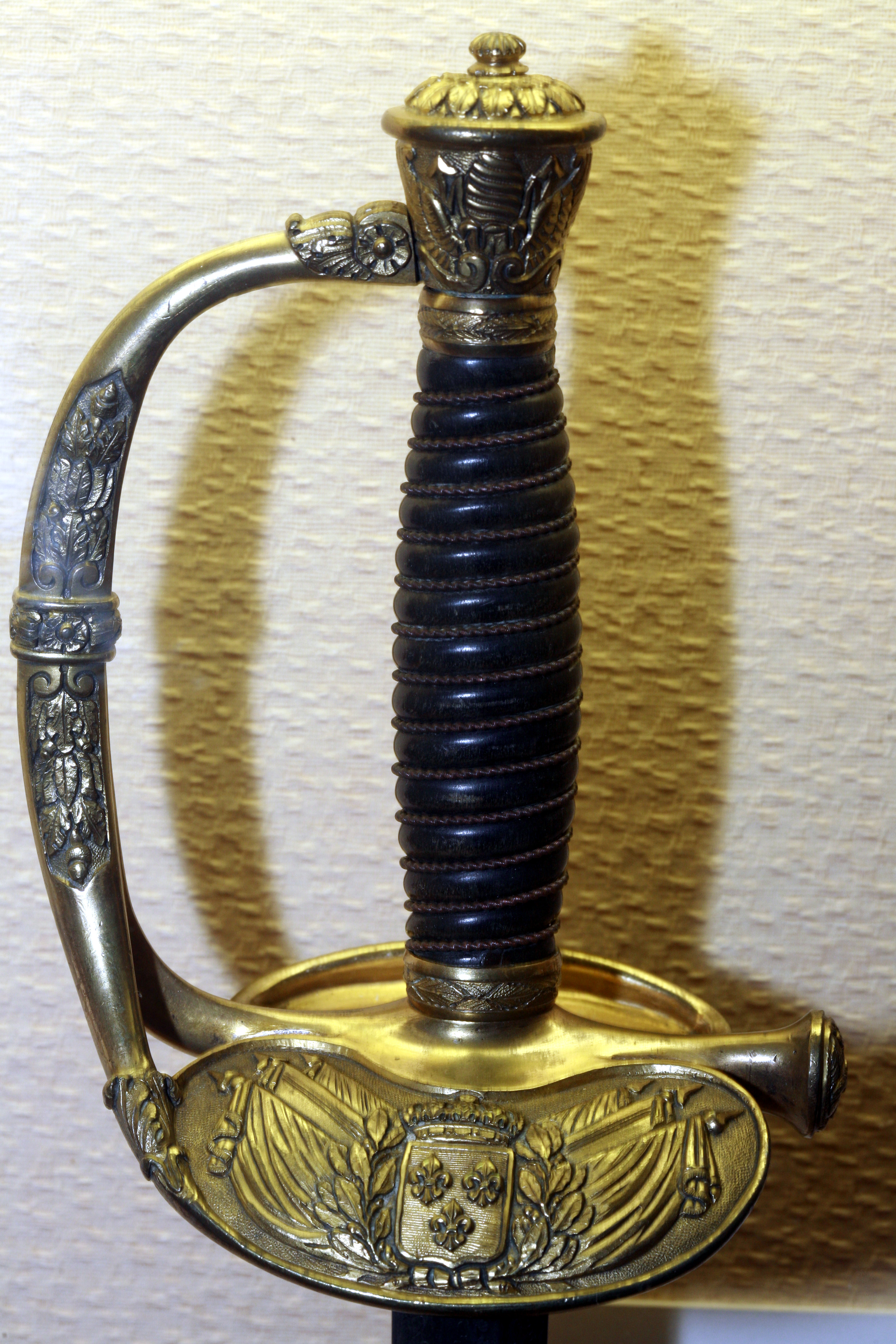 French officer smallsword, c. 1815